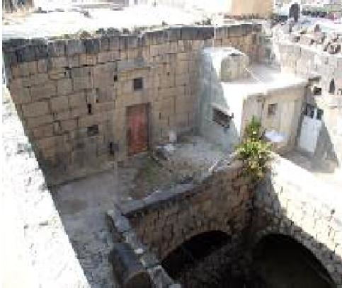 A Pre-Islamic "Arabic Traditional House Style", from Hayyat, Jabal Al-Arab, Damascus, Syria.